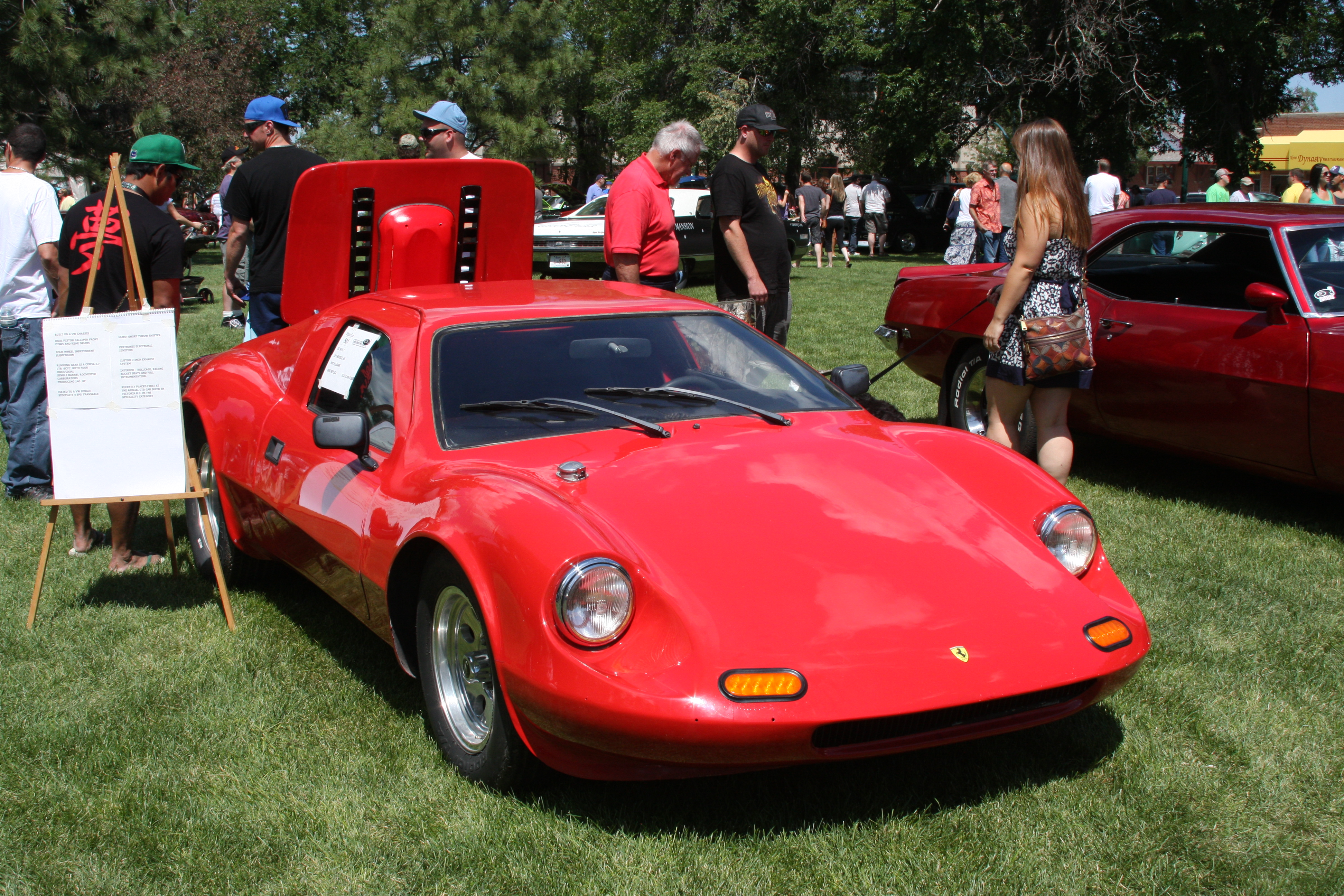 1987 Kelmark kit car with Corvair six cylinder power. Meant to resemble a Dino.